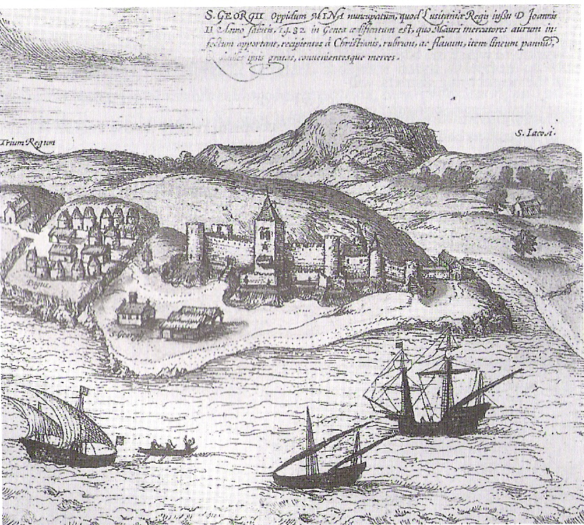 Idealized picture of Elmina (Ghana), 1575